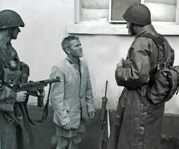 Swedish troops detain white Katangese sniper who had been hiding in a tree